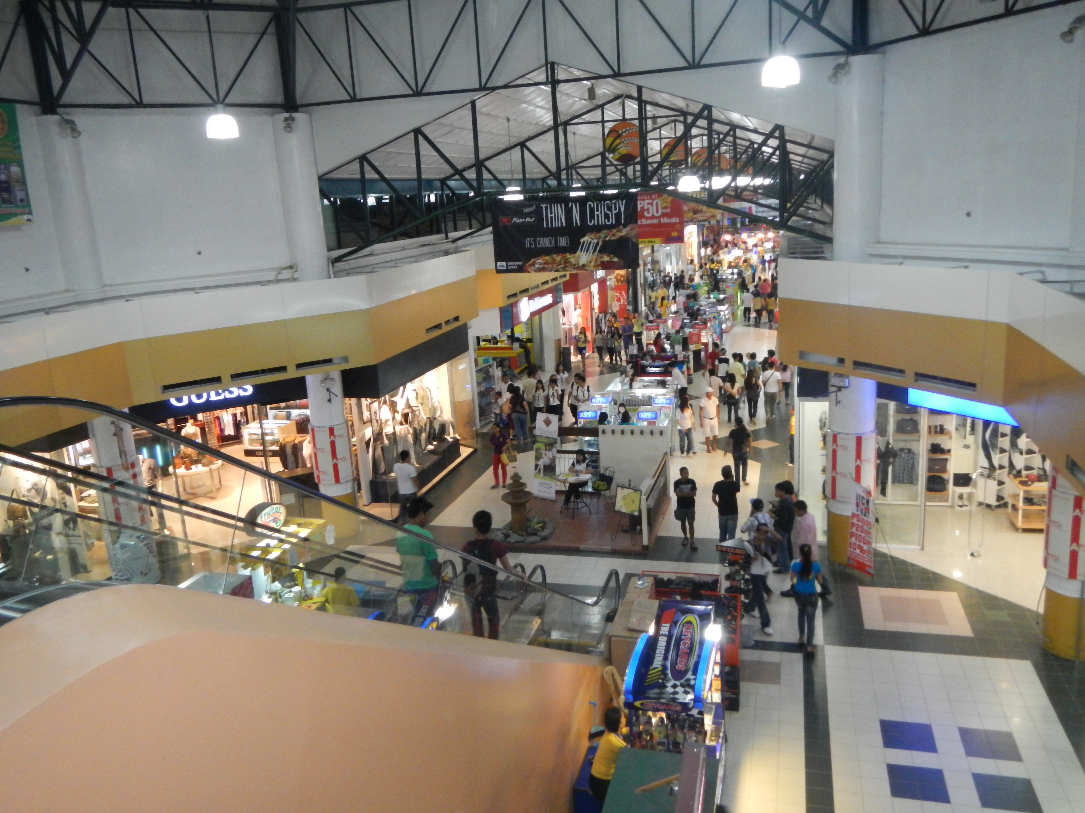 NE Pacific Mall cabanatuan city